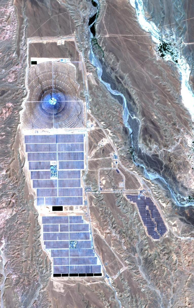 Ouarzazate Solar Power Station on 20 March 2019